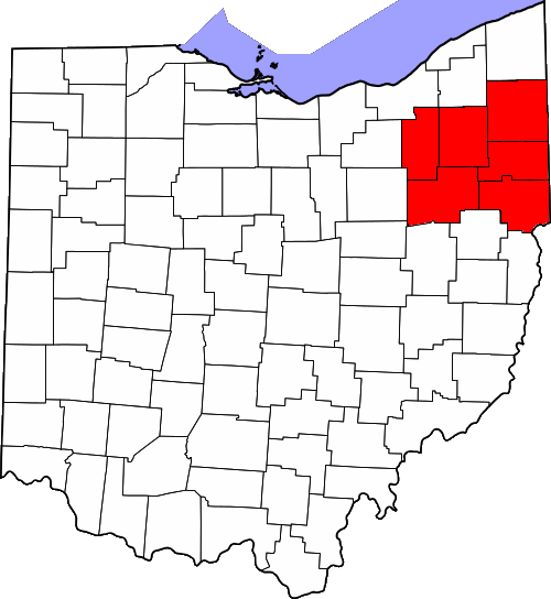 Map of the state of Ohio, United States, highlighting Polymer Valley, referring to article in Ohio History Central by Ohio History Connection.